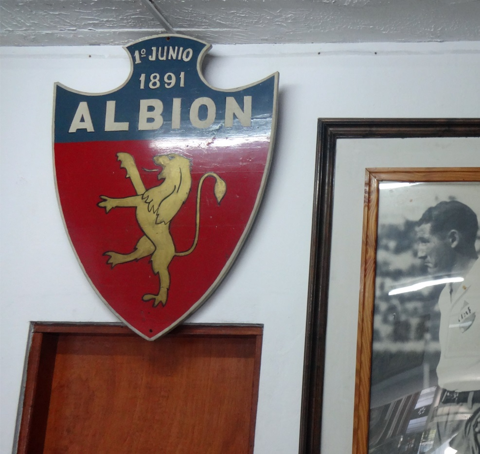 The Albion F.C. headquarter in Montevideo.